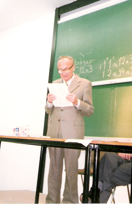 Israel-Yeivin-Photo